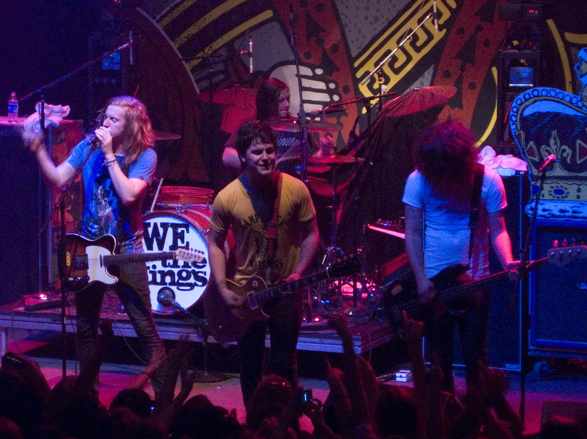 We the Kings performing on November 17, 2008 at the 930 Club in Washington, D.C.